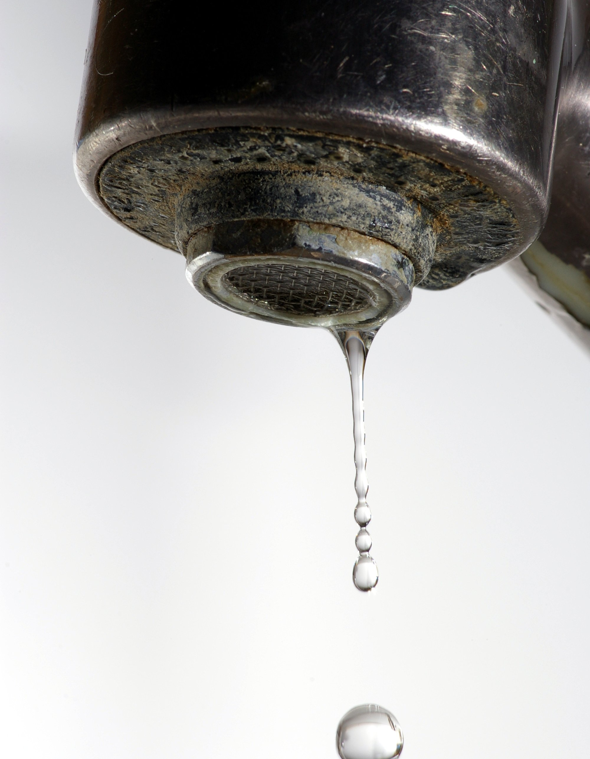 Drop coming out of a faucet coated with calcium from the hard water